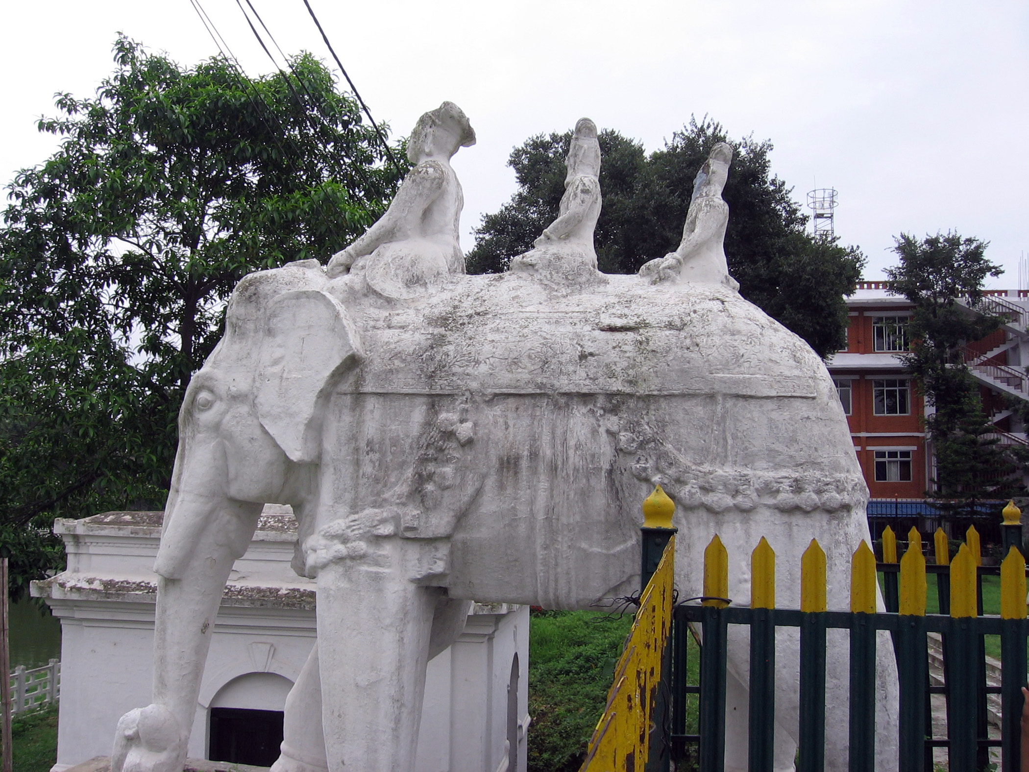 Seventeenth-century stone statue of an elephant carrying images of Nepalese king Pratap Malla and his two sons Chakravartendra Malla and Mahipatendra Malla in Kathmandu.